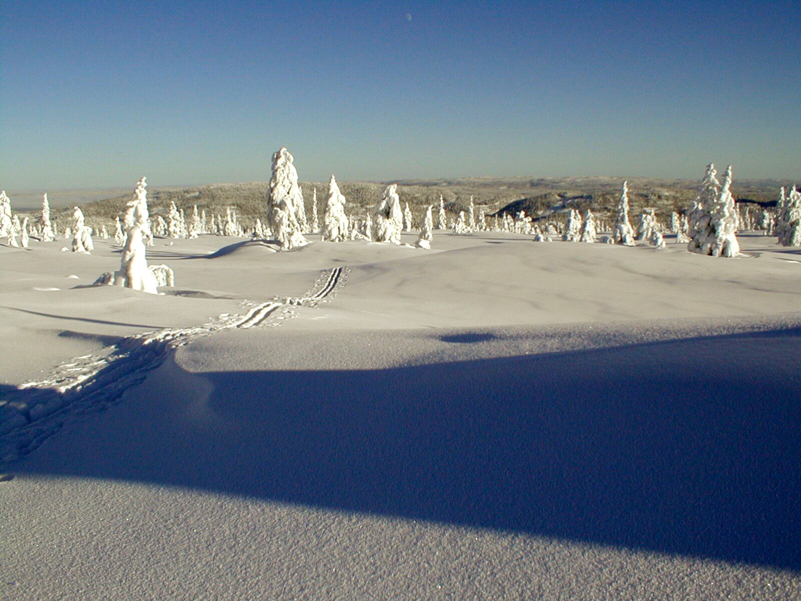 Winter landscape in Blefjell, Norway.